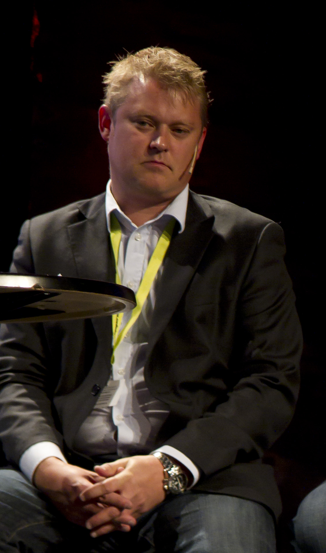 Foto: Magnus Munthe-Dahl